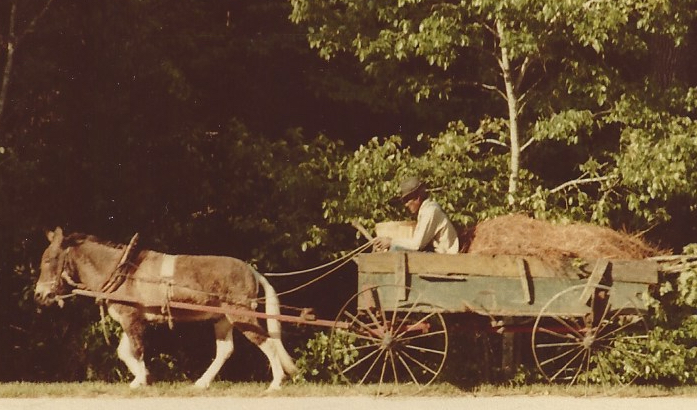 mule cart